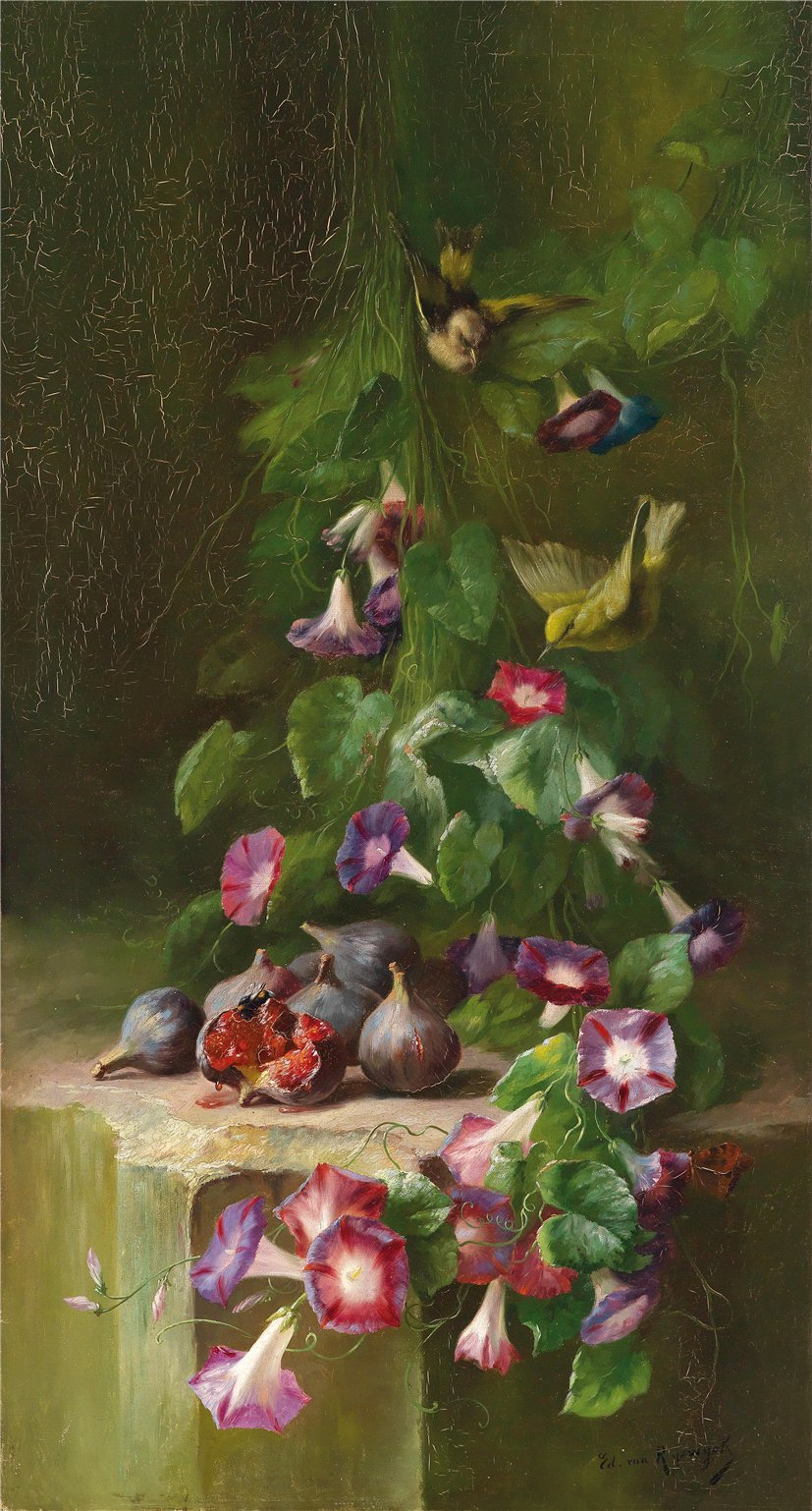 Sweet peas and figs